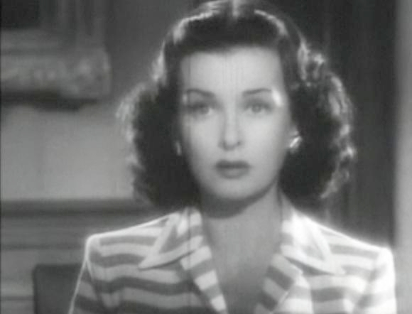 Cropped screenshot of Joan Bennett from the film Hollow Triumph (also known as The Scar)